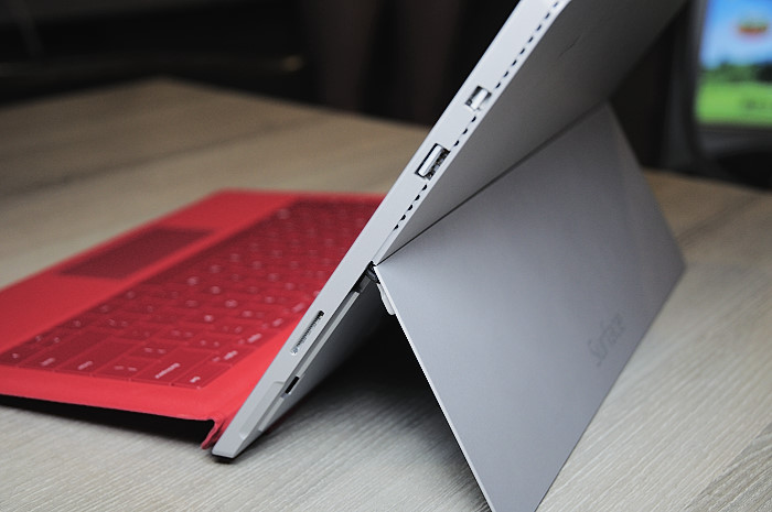 Surface Pro 3 showing the kicking stand and attached Type Cover